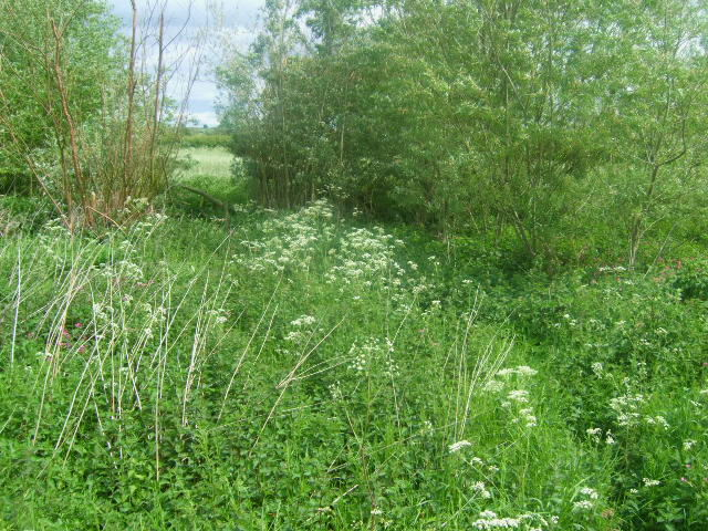 Overgrown path The path beyond the river to Bancroft is very overgrown.